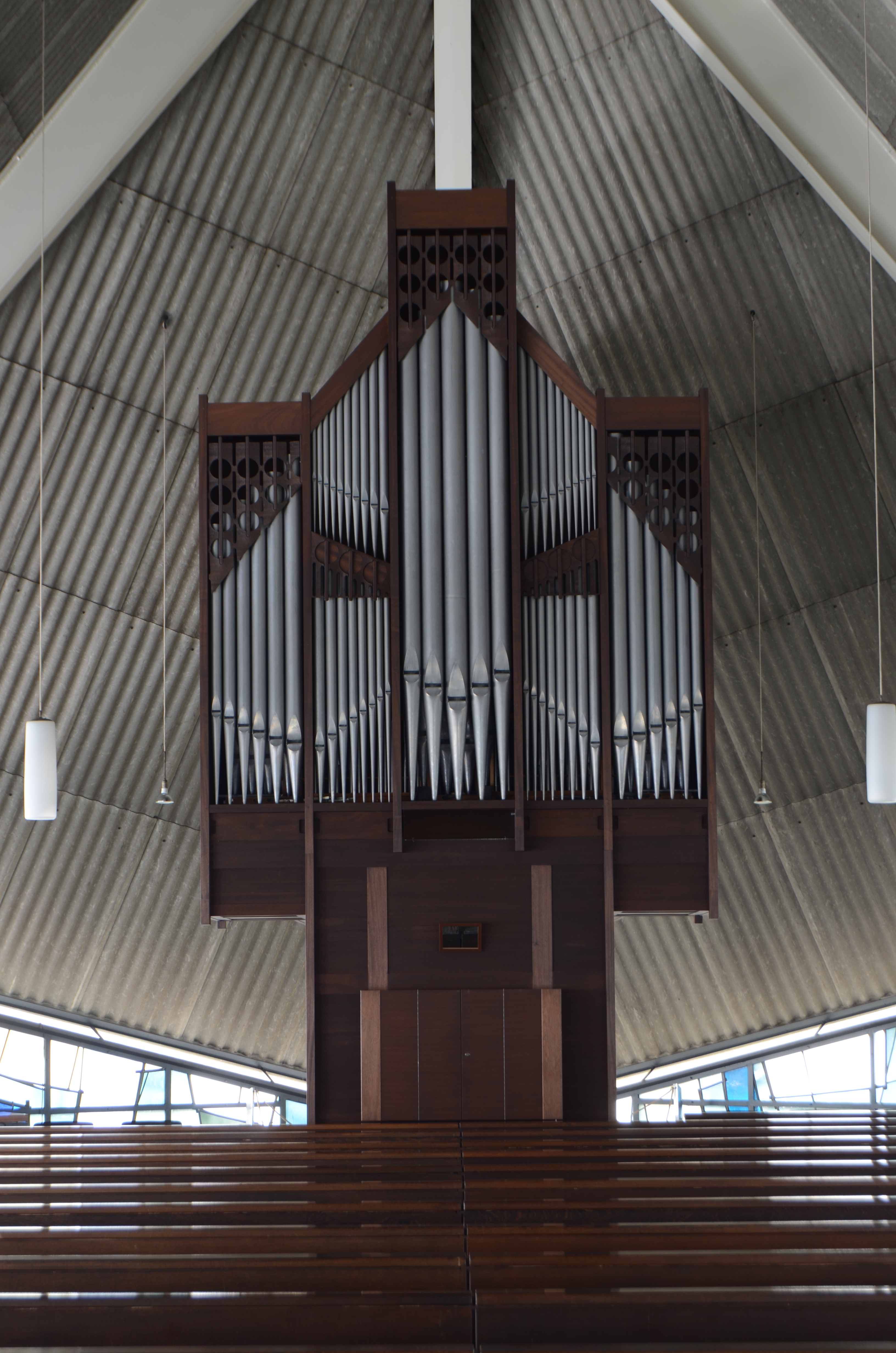 Krefeld (North Rhine-Westphalia, Germany) – district Kliedbruch – Catholic Saint Hubertus Church – pipe organ This image shows a heritage building in Germany, located in the North Rhine-Westphalian city Krefeld (no. 825). This photograph was taken with a Nikon D7000